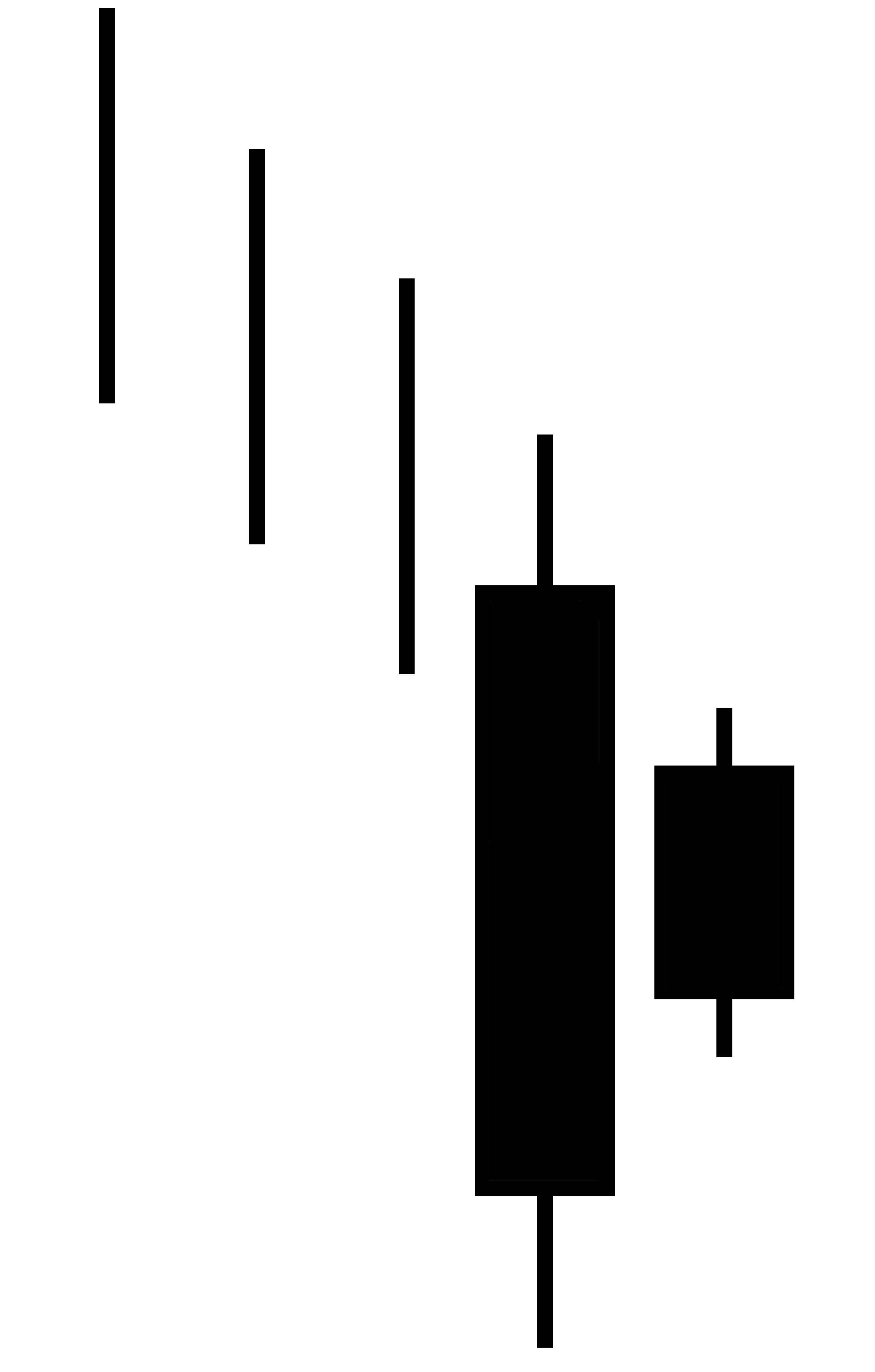 Bullish homing pigeon